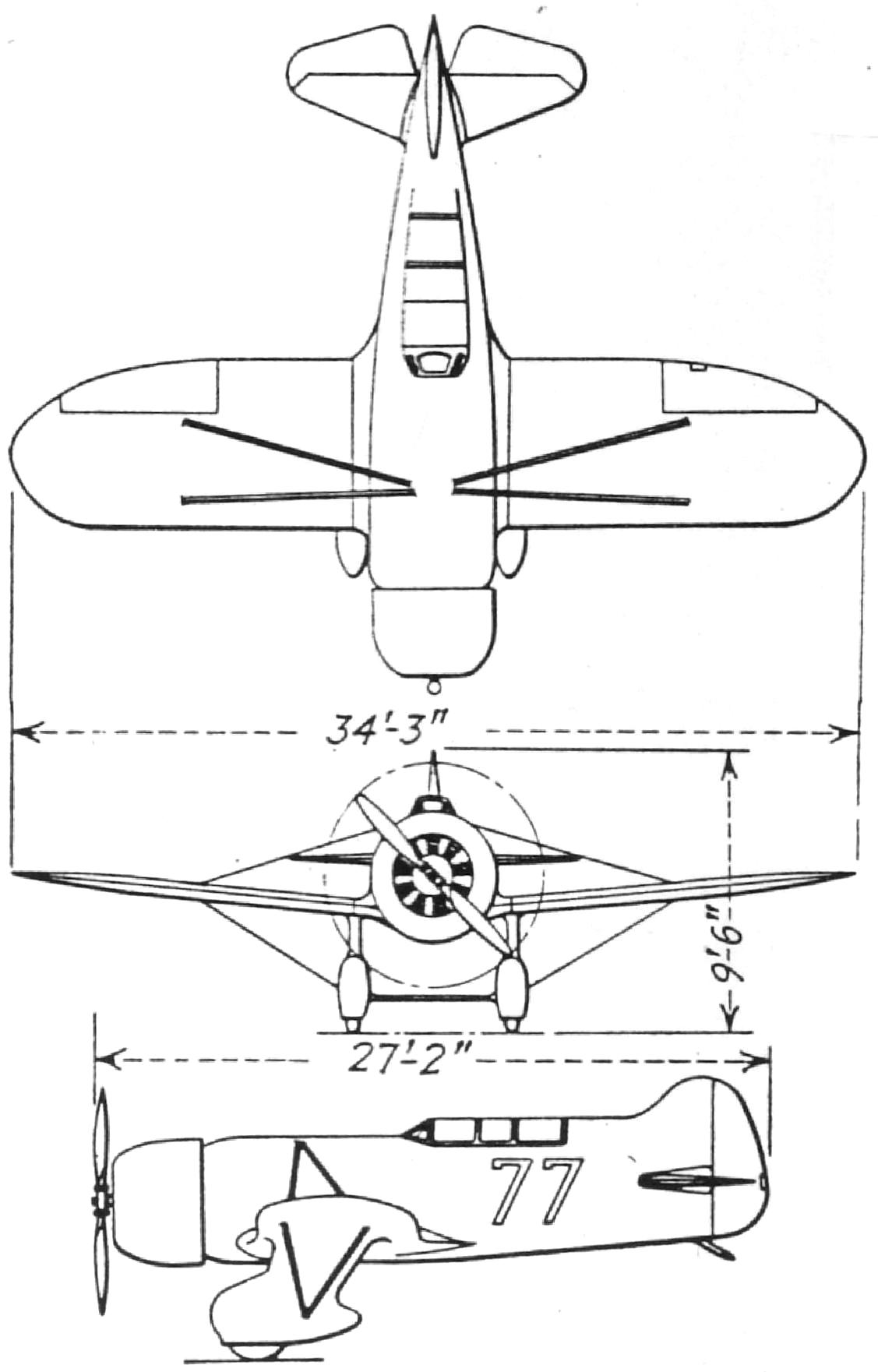 Catalog #: 01_00091511 Title: Gee Bee, Q.E.D. Corporation Name: Granville Brothers (Gee Bee) Designation: Q.E.D. Additional Information: USA Original configuration built for Jackie Cochran. Repository: San Diego Air and Space Museum Archive